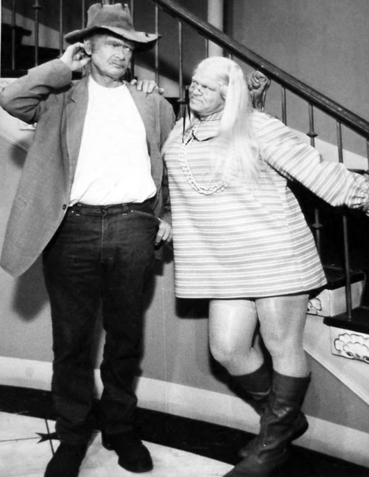 Publicity photo of Buddy Ebsen and singer Roy Clark (as "Myrtle Halsey") for the television program The Beverly Hillbillies. Clark arrives at the Hillbillies' home as their "Cousin Roy" from "back home". He's there to sell medicine made by his mother, Myrtle (also played by Roy Clark), and is willing to go to extremes to do that.